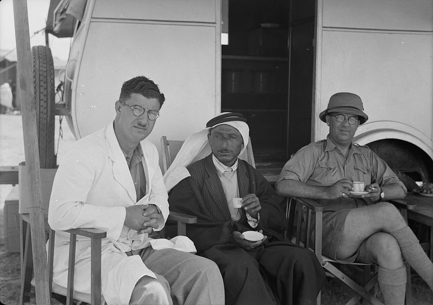 The Dept. of Health, Mobile Ophthalmic Clinic. Operating in Arab villages of the South Country, N.E. of Gaza. Left to right: Dr. Shukeir, the Mukhtar of Nedjd village & Dr. V. L. Ferguson taking coffee in shade of van